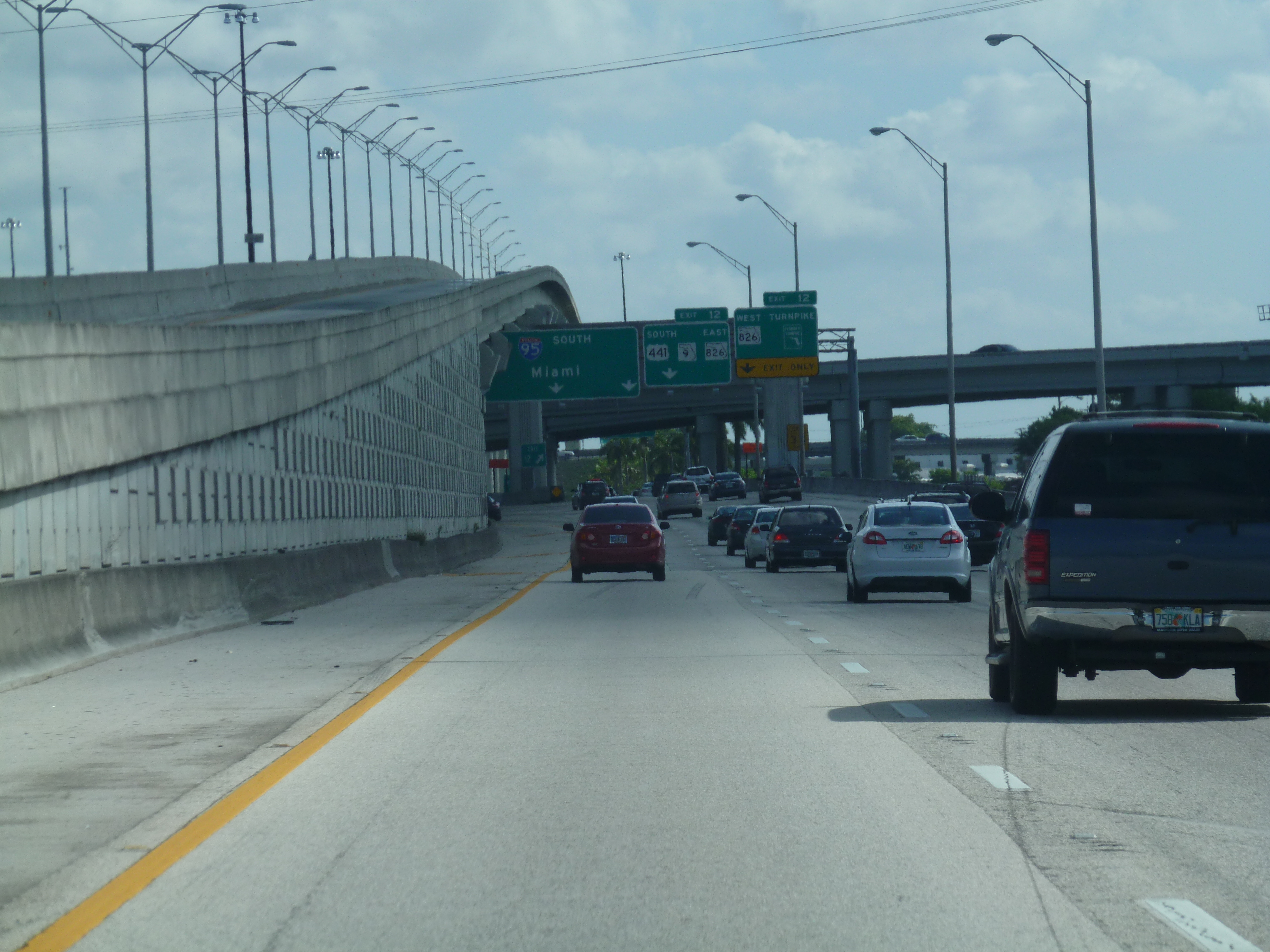 Approaching the Golden Glades Interchange from Interstate 95 South.